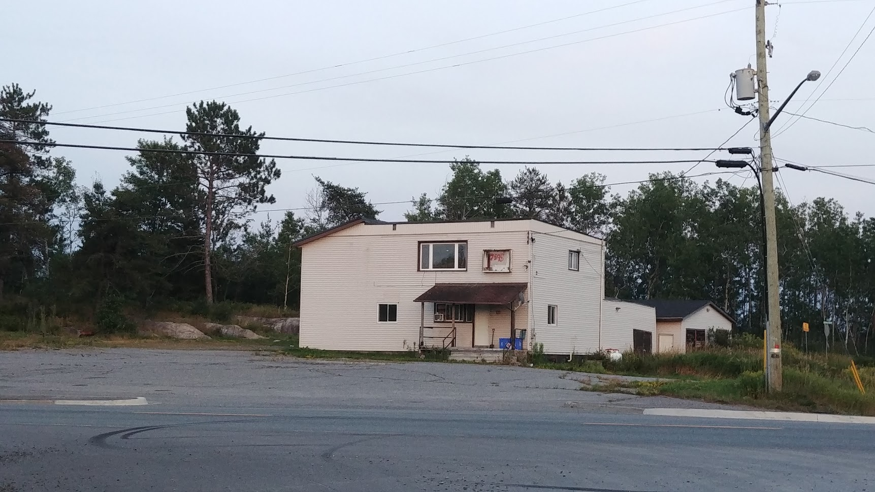 Photograph of the former Beaver Lake General Store in Beaver Lake, Greater Sudbury, Ontario, Canada, as seen from the junction of Worthington Road and Ontario Highway 17. The gas pumps and sign have been removed.